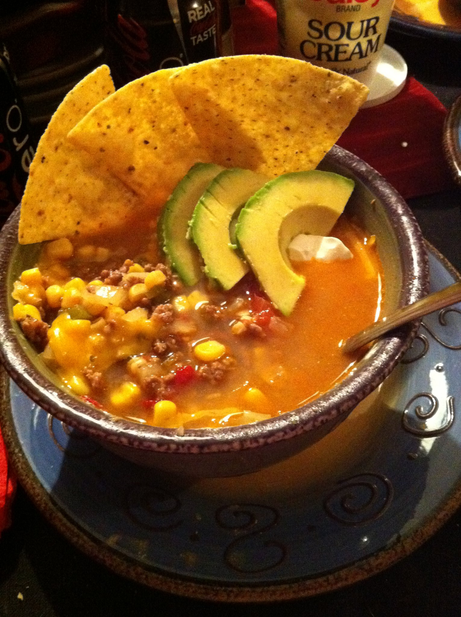 Taco soup is composed of similar ingredients to those used inside a taco: ground beef, tomatoes, chopped green chilis, olives, onions, corn, beans, etc. Once cooked, as here, the soup may be topped off with cheese, sour cream, raw onions, avocado, and/or tortilla chips